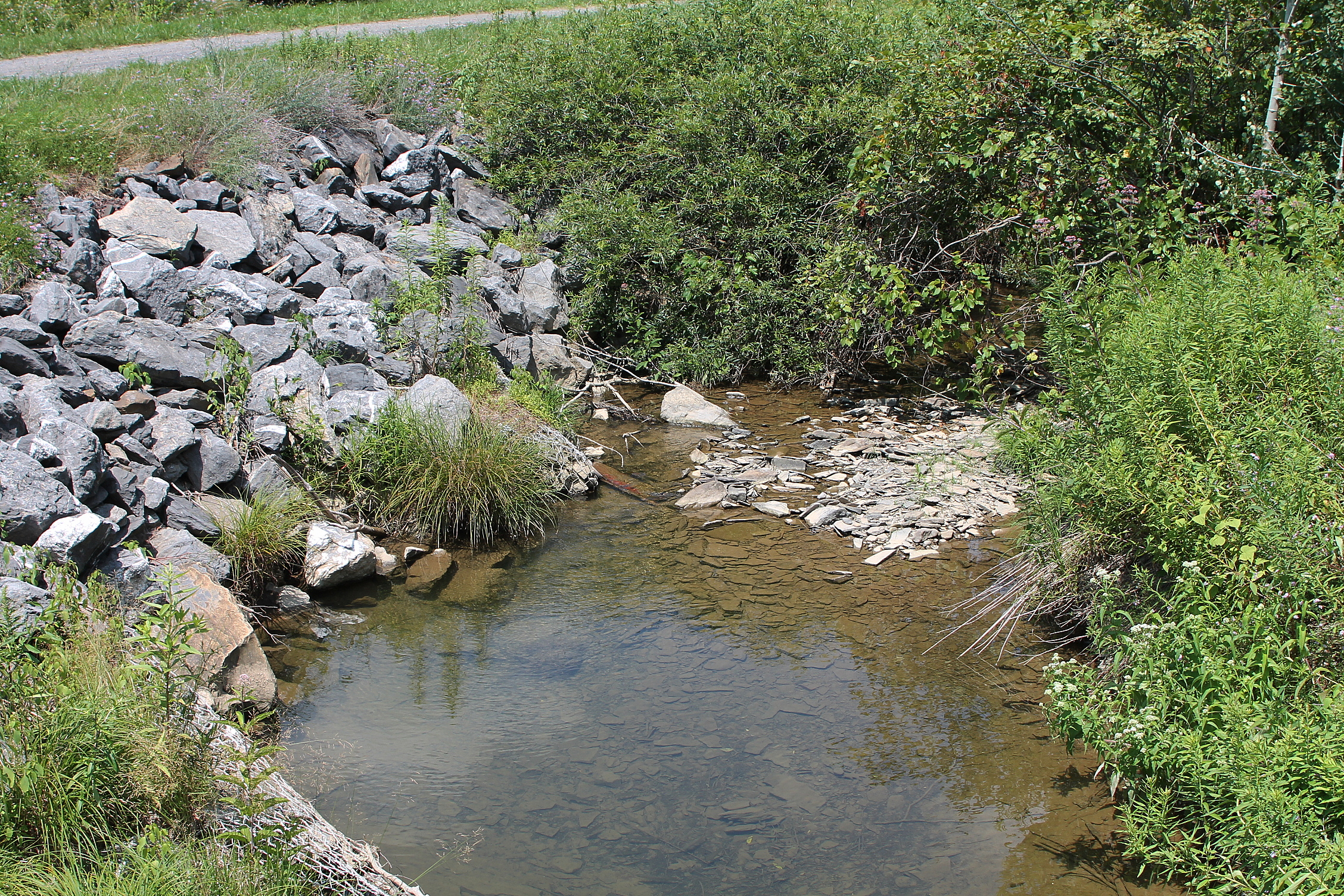 Lick Run, a tributary of Little Fishing Creek, near its mouth looking upstream